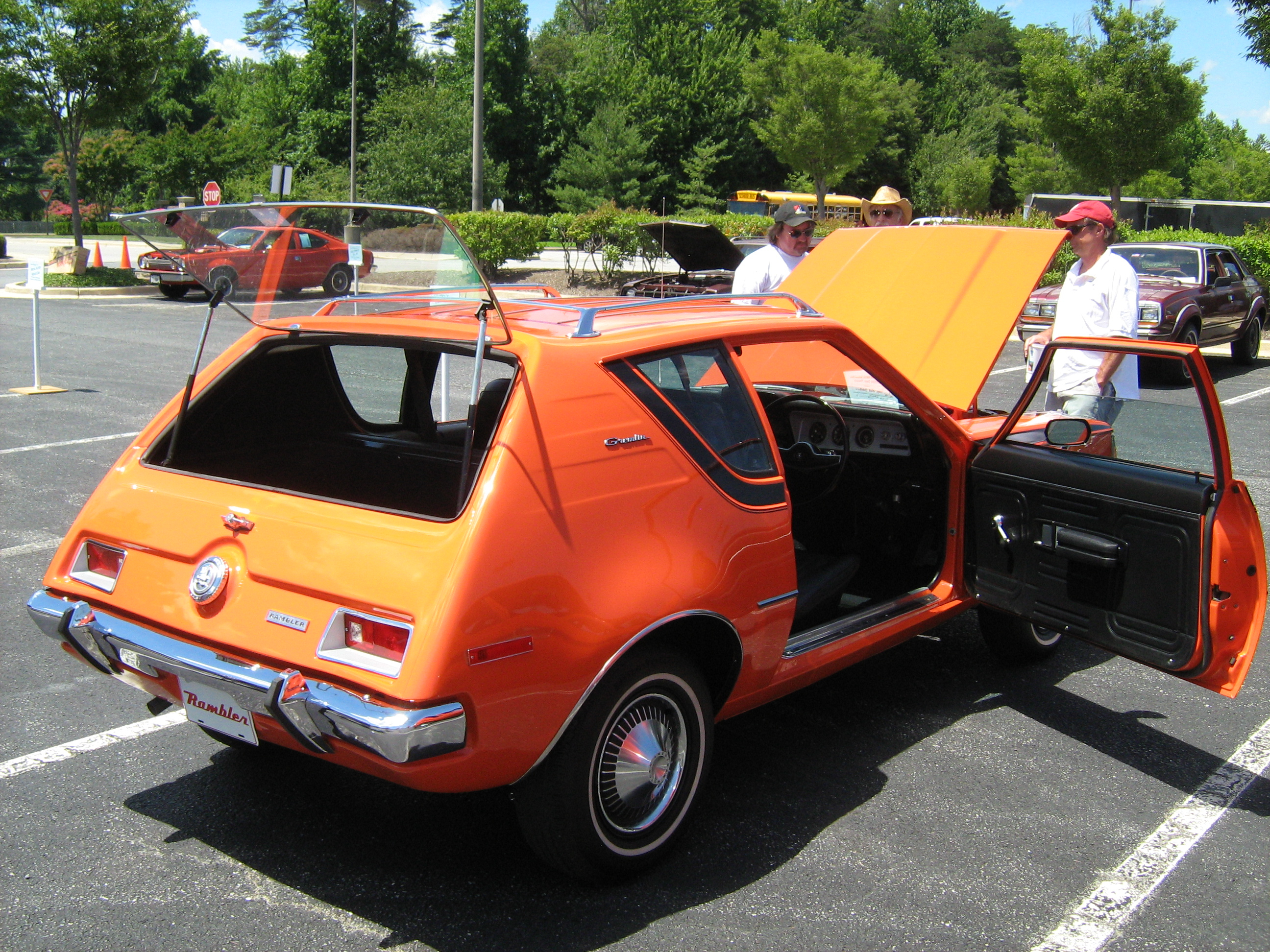 1971 AMI Rambler Gremlin assembled in Australia by Australian Motor Industries (AMI). The automobile is from a complete knock down (CKD) kit from American Motors Corporation (AMC).